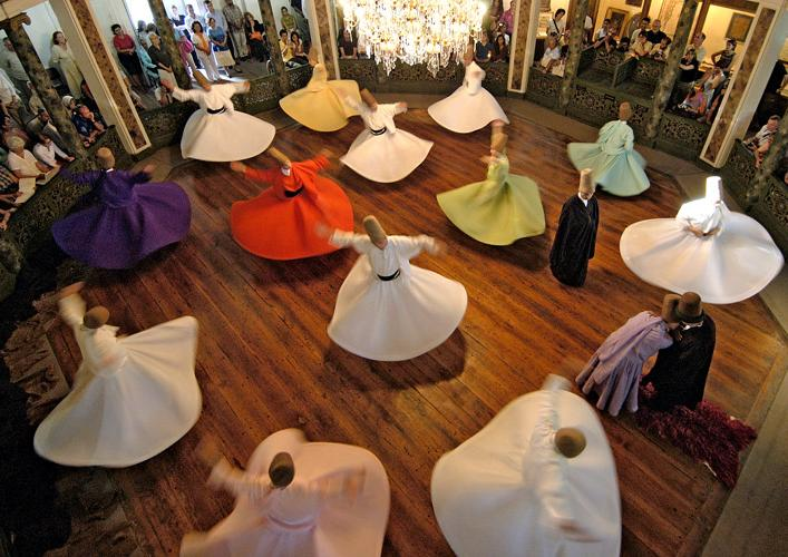 Whirling Dervishes from Turkey. They belong to a Sufi Islamic sect called the Mevlevi founded by the famous philosopher Mevlana. Picture was taken from the top viewing gallery.